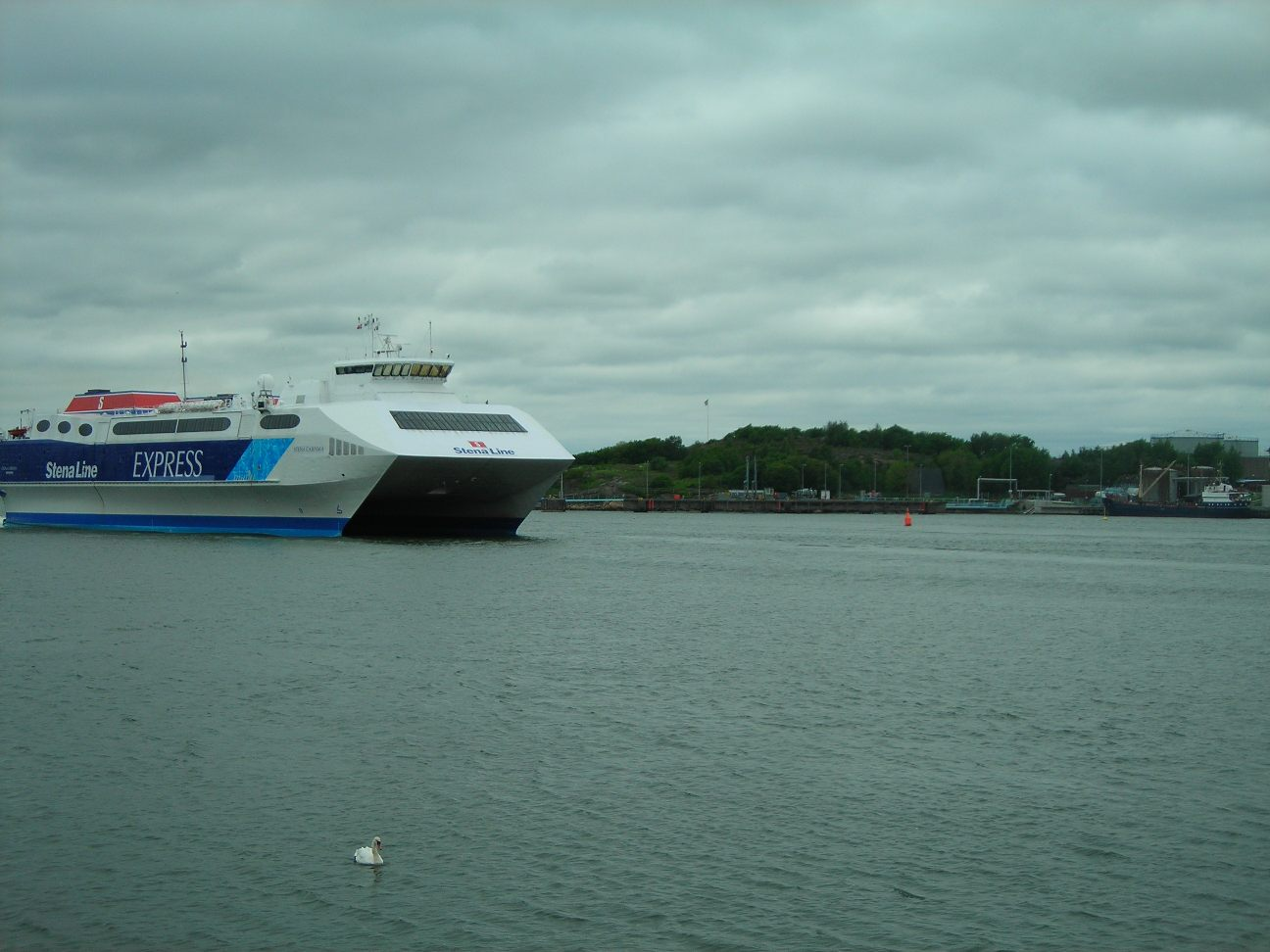 Stena Carisma, a highspeed car and passenger ferry in Gothenburg port.